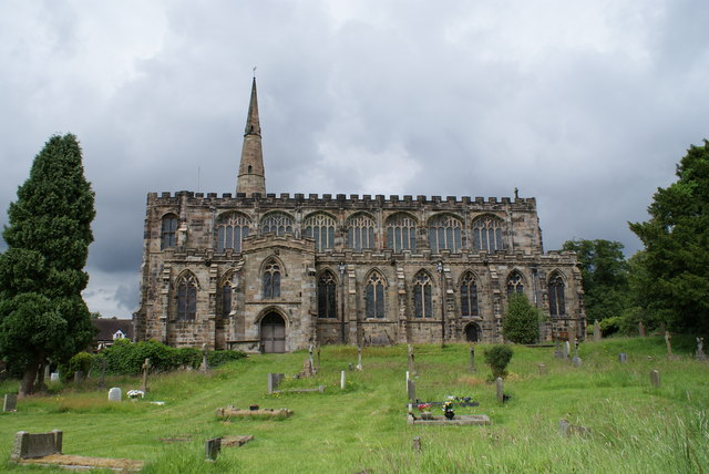 Astbury Church, near to Astbury, Cheshire, Great Britain. This was taken by myself from the bottom of the churchyard, looking north onto the main building.